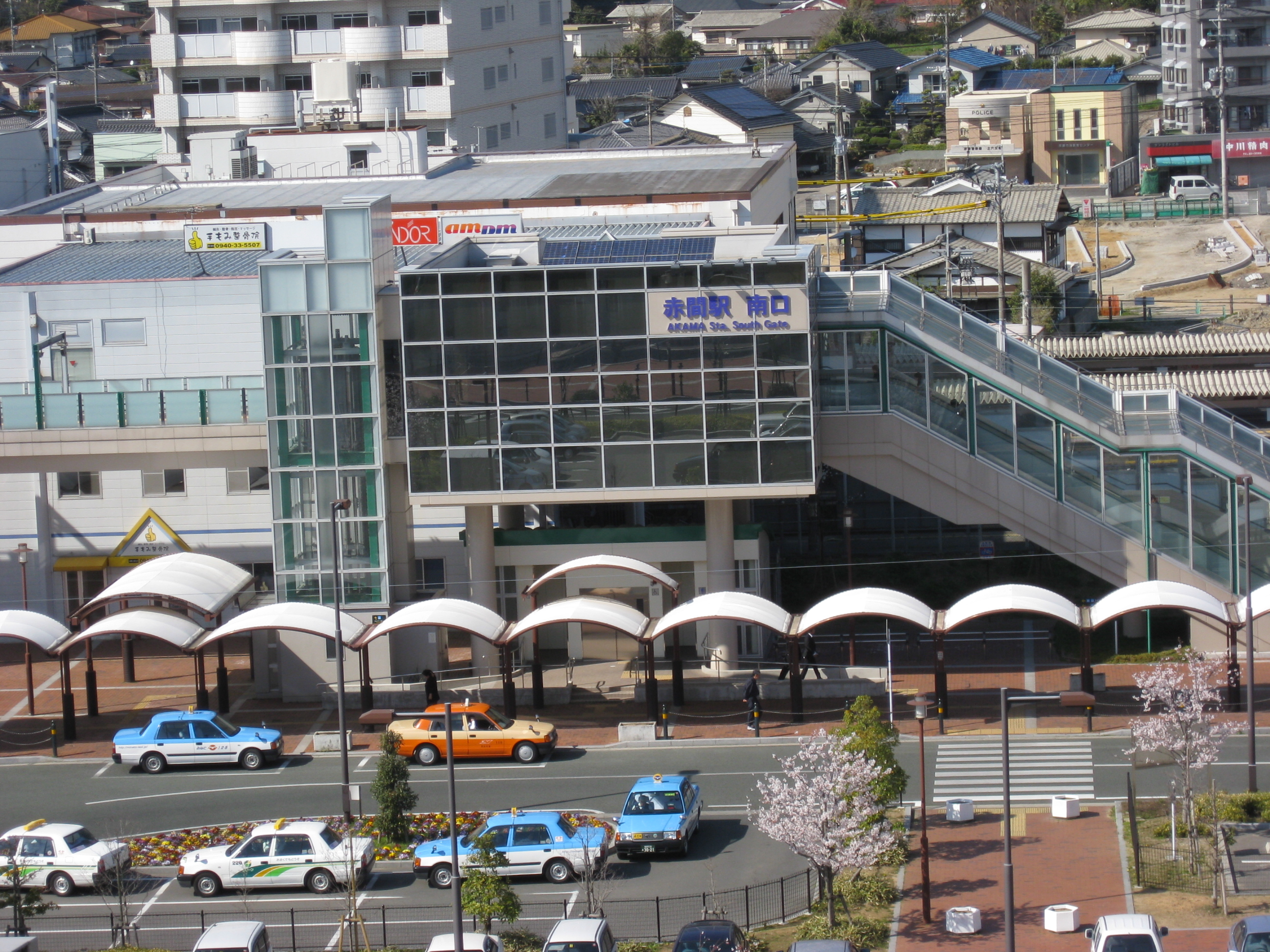 Akama Station south side